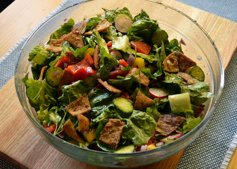 Fattoush salad mixed with leafy greens